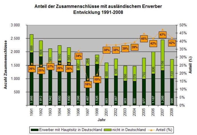 Concentrations notified to German competition authority - foreign buyers by number and share